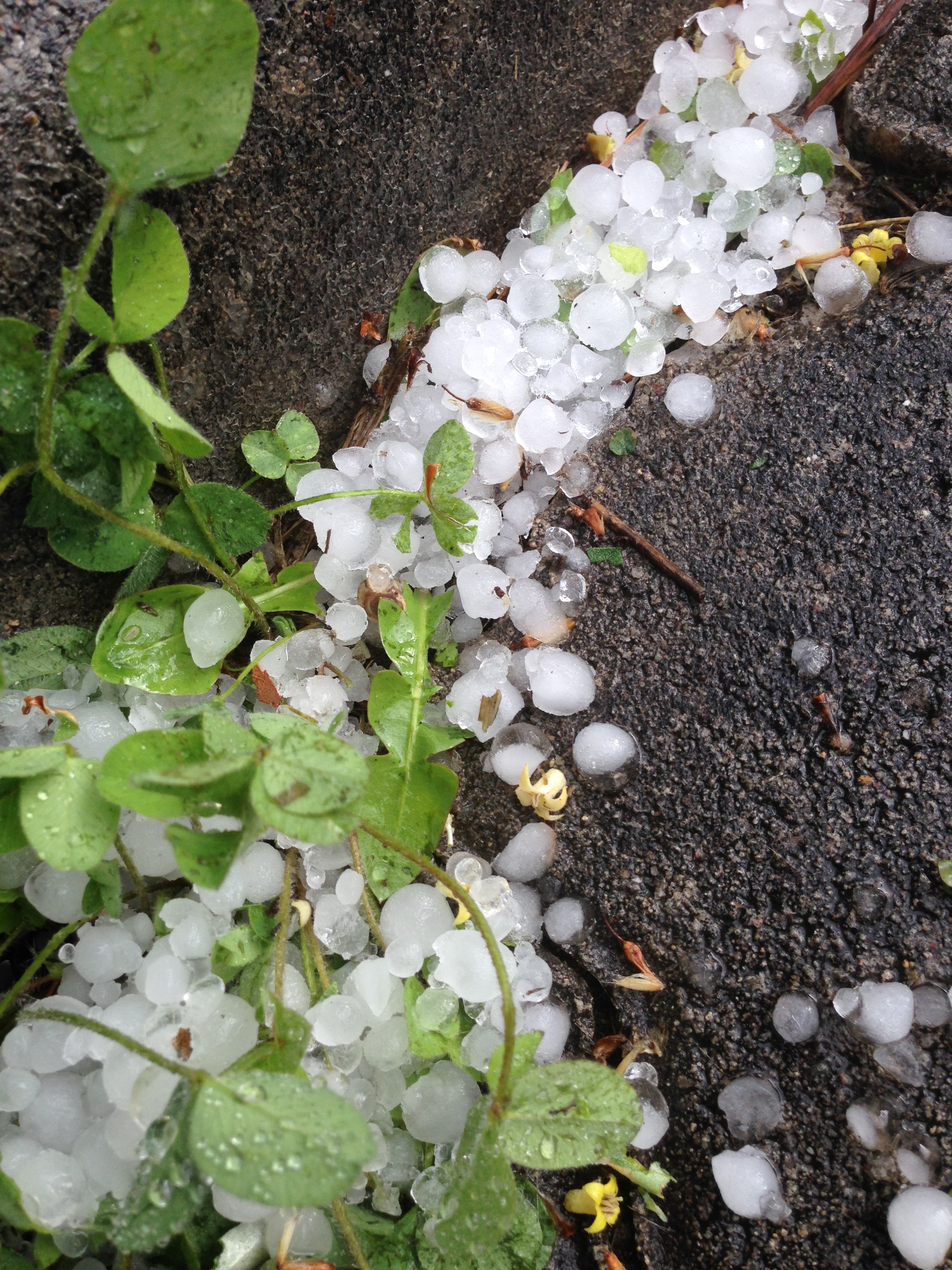 Hail in Turkey